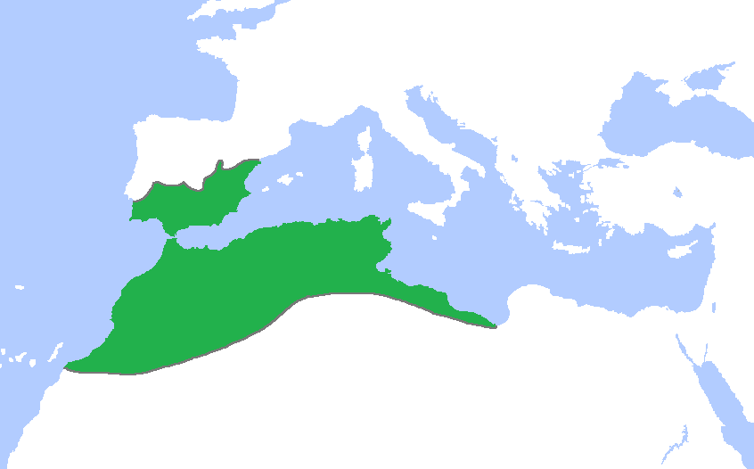 Locator map of the Almohad dynasty at its greatest extent, c. 1200. (Partially based on Atlas of World History (2007) - The World 1000-1200, map)